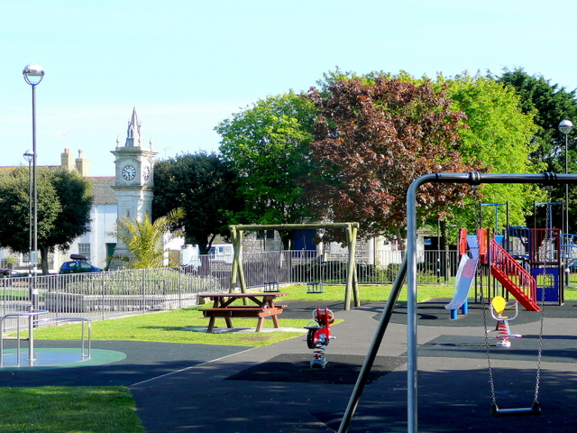 A look across The Square, Easton Unused playground on a weekday tea-time.